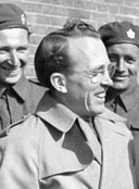 Hon. T.C. Douglas, Premier of Saskatchewan, talking with Private P. Campbell of The Saskatoon Light Infantry (M.G.), Barneveld, Netherlands, 29 April 1945(cropped)